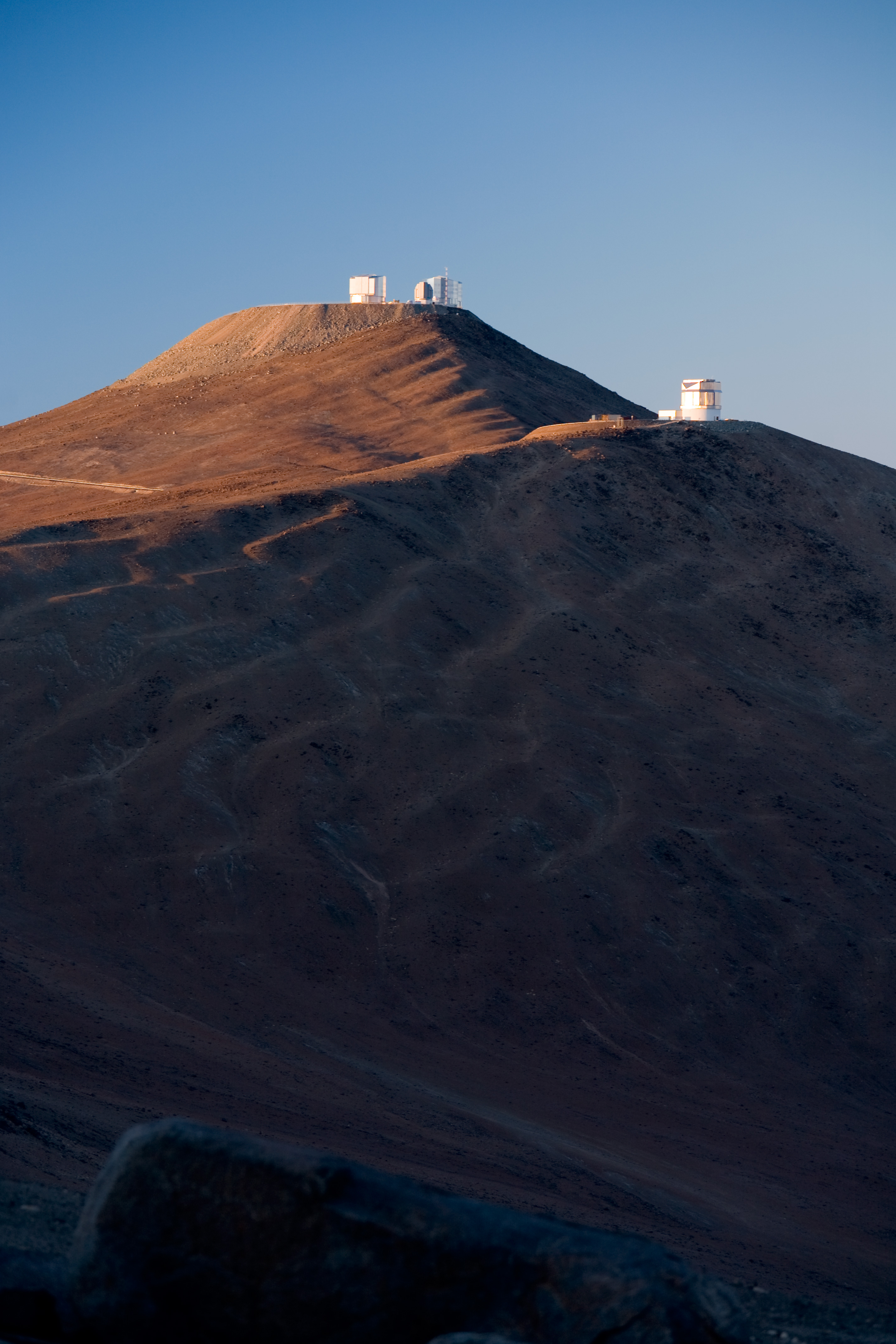 This early morning shot shows the Visible and Infrared Survey Telescope for Astronomy (VISTA) in front of the Paranal summit. VISTA is a wide-field telescope that will perform a series of very broad surveys of the sky in infrared light. Thanks to its fairly large primary mirror, with a diameter of 4m, these surveys will show quite faint objects. The goal of these surveys is to create large catalogues of celestial objects for statistical studies and to identify new targets for the VLT. This picture was obtained in November 2007 during sunrise.